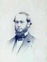 George Helm Yeaman, US Representative from Kentucky